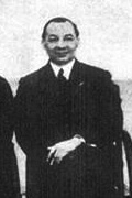 Sir Robert Hormus Kotewal.